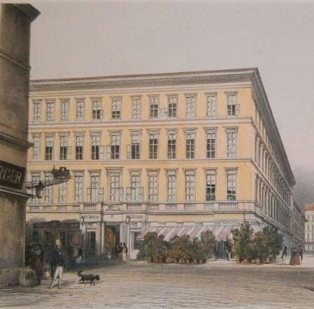 A retouched image of the lithography "Hotel Tiger" by Rudolf von Alt, 1853.